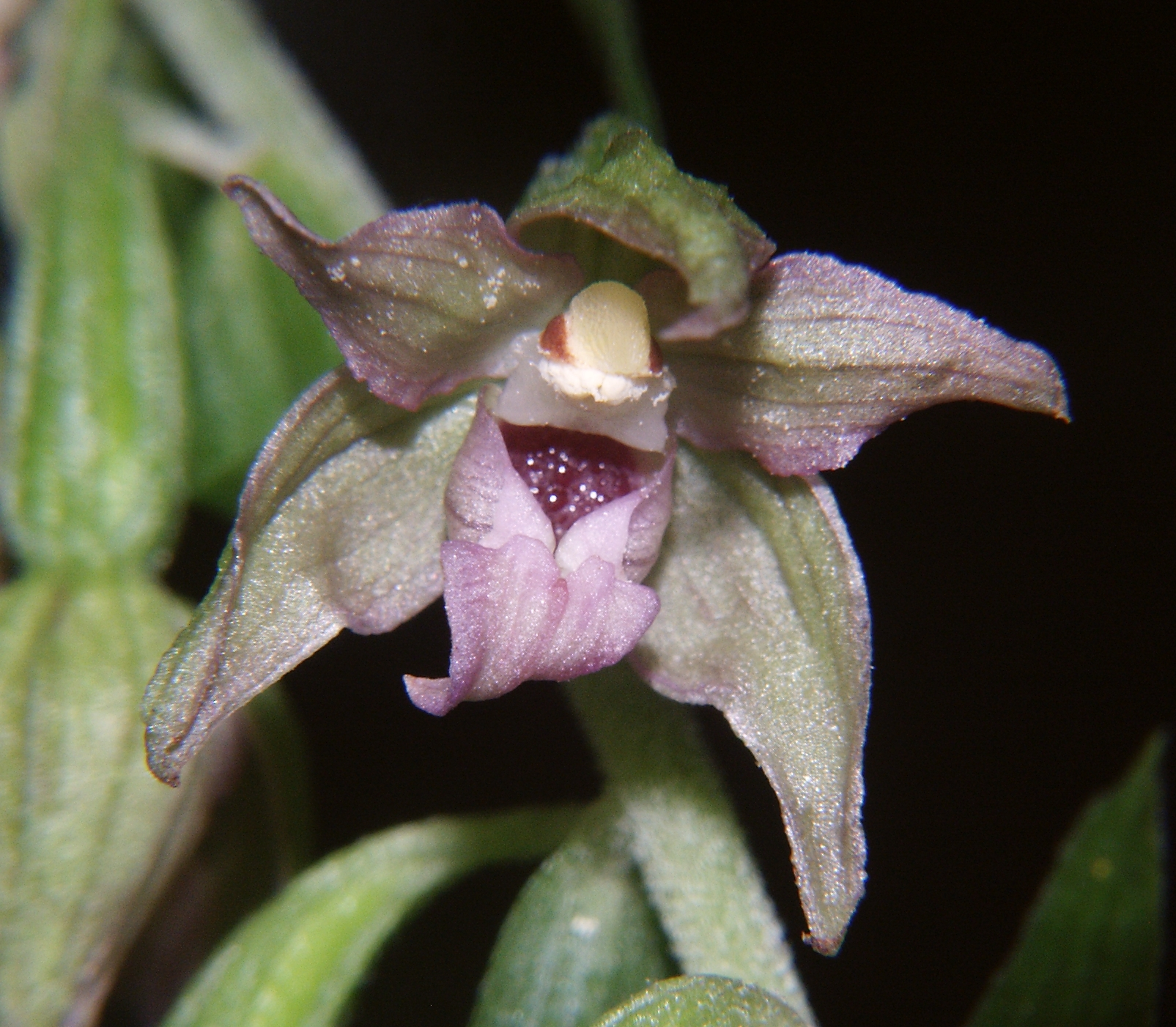 Epipactis neglecta, Hohenlohe, Germany